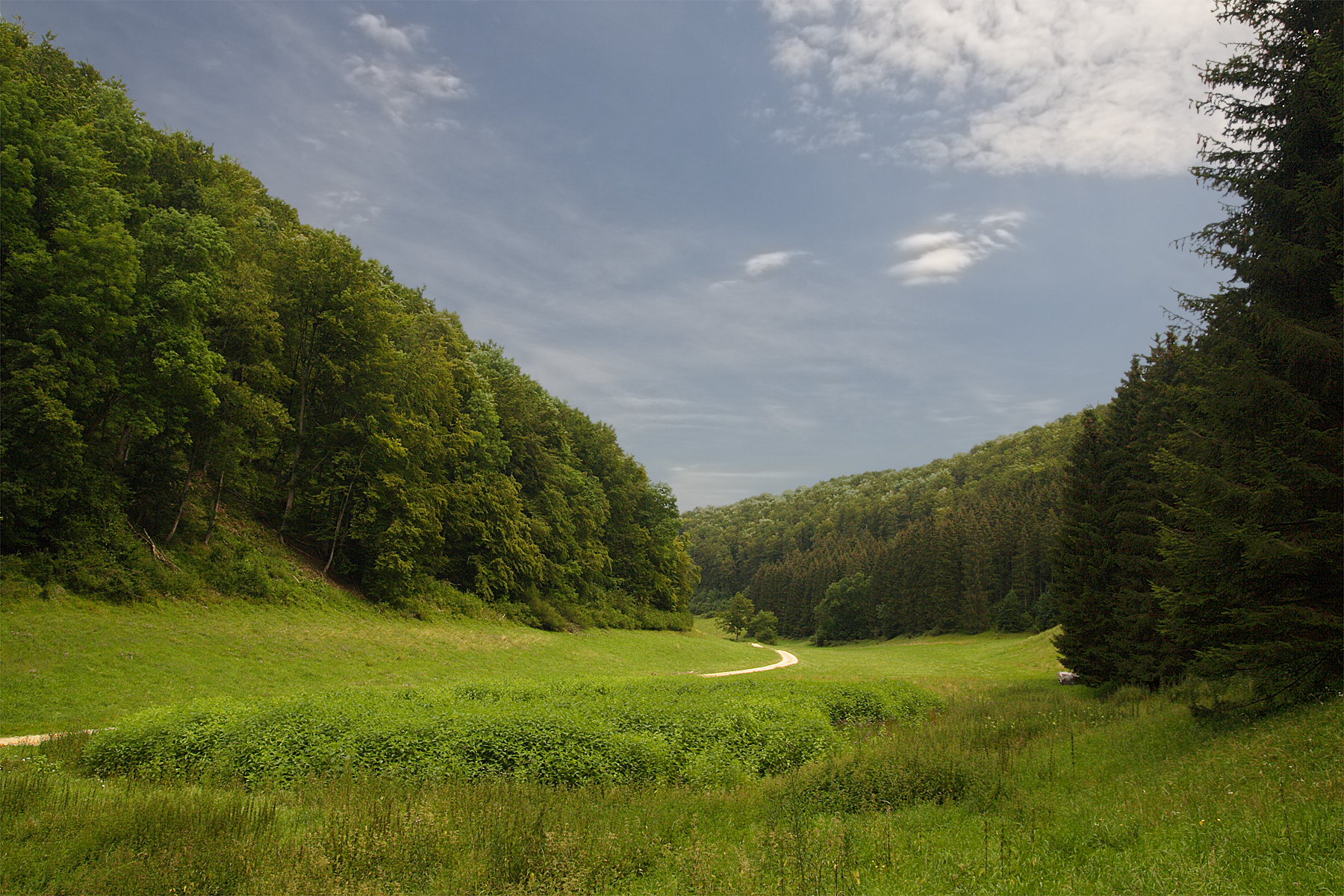 Hasental, dry valley of the Ur-Fils above Karst spring Filsursprung, Swabian Alb